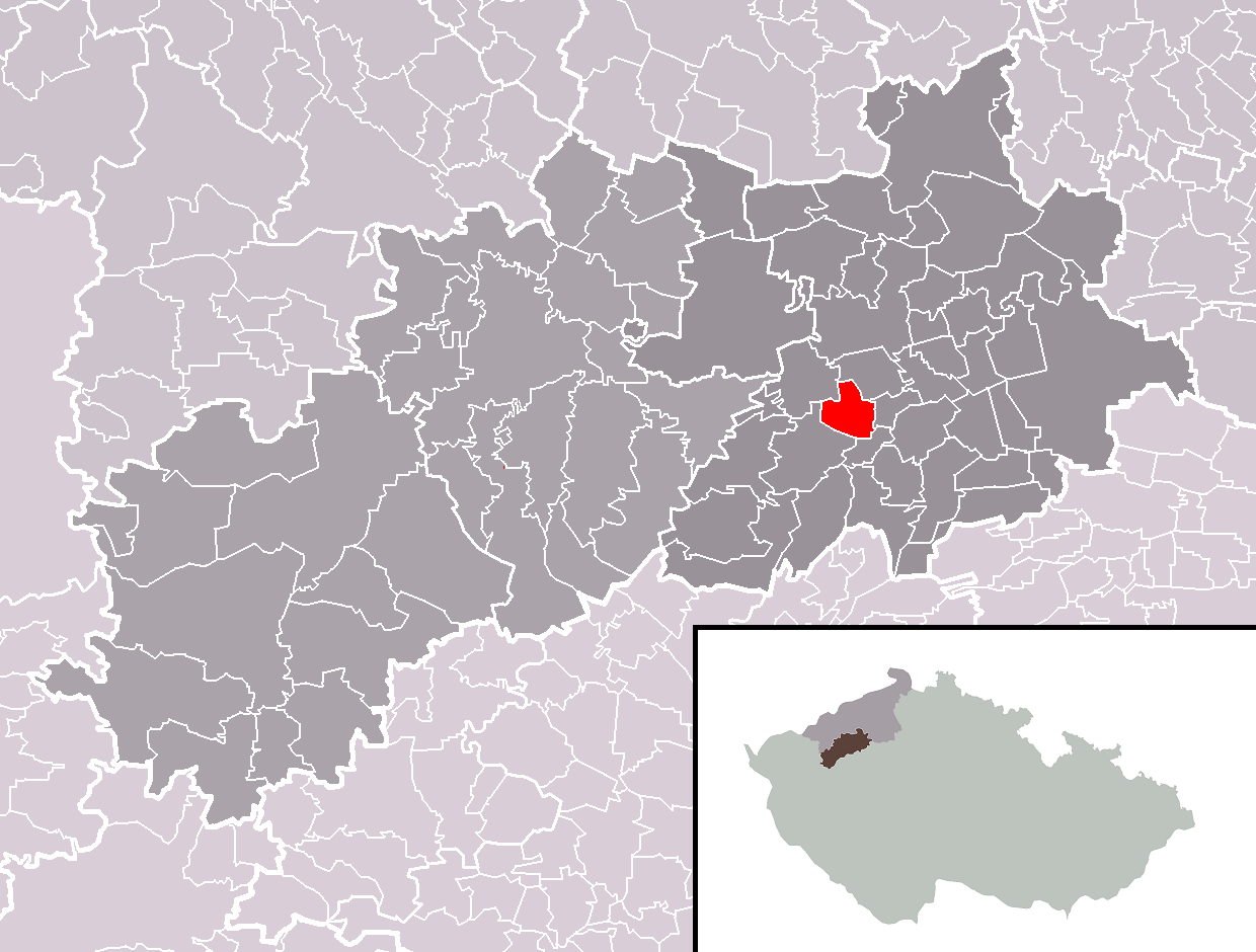 Location of Líšťany municipality within Louny District and administrative area of Louny as a Municipality with Extended Competence.